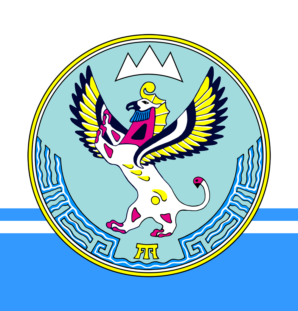 Штандарт Главы Республики Алтай